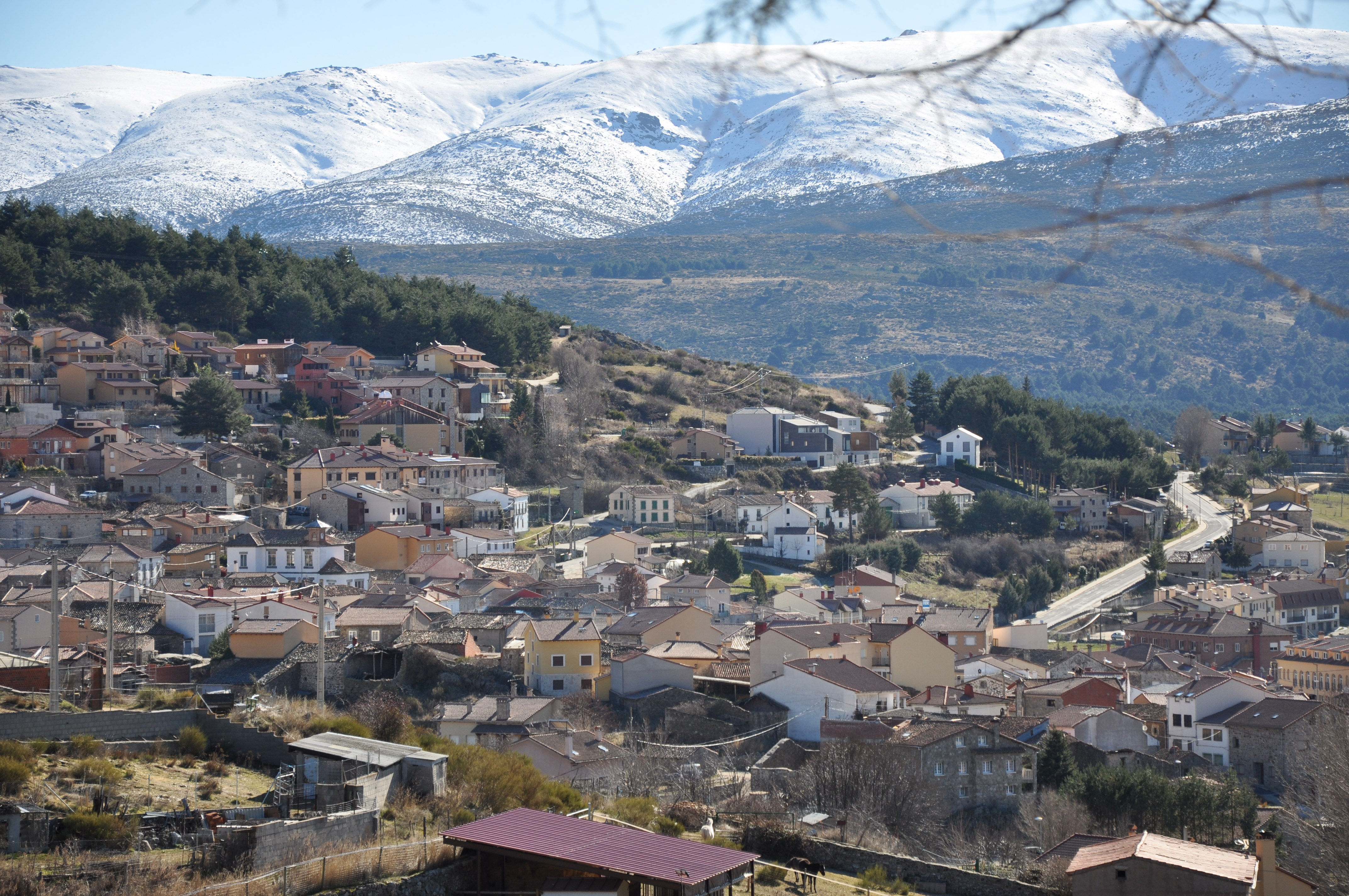 Panoramic view of Hoyos del Espino from the sanctuary of Our Lady of the Espino, Ávila, Spain.